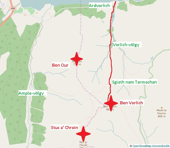 Trails leading from Ardvorlich to Ben Vorlich.